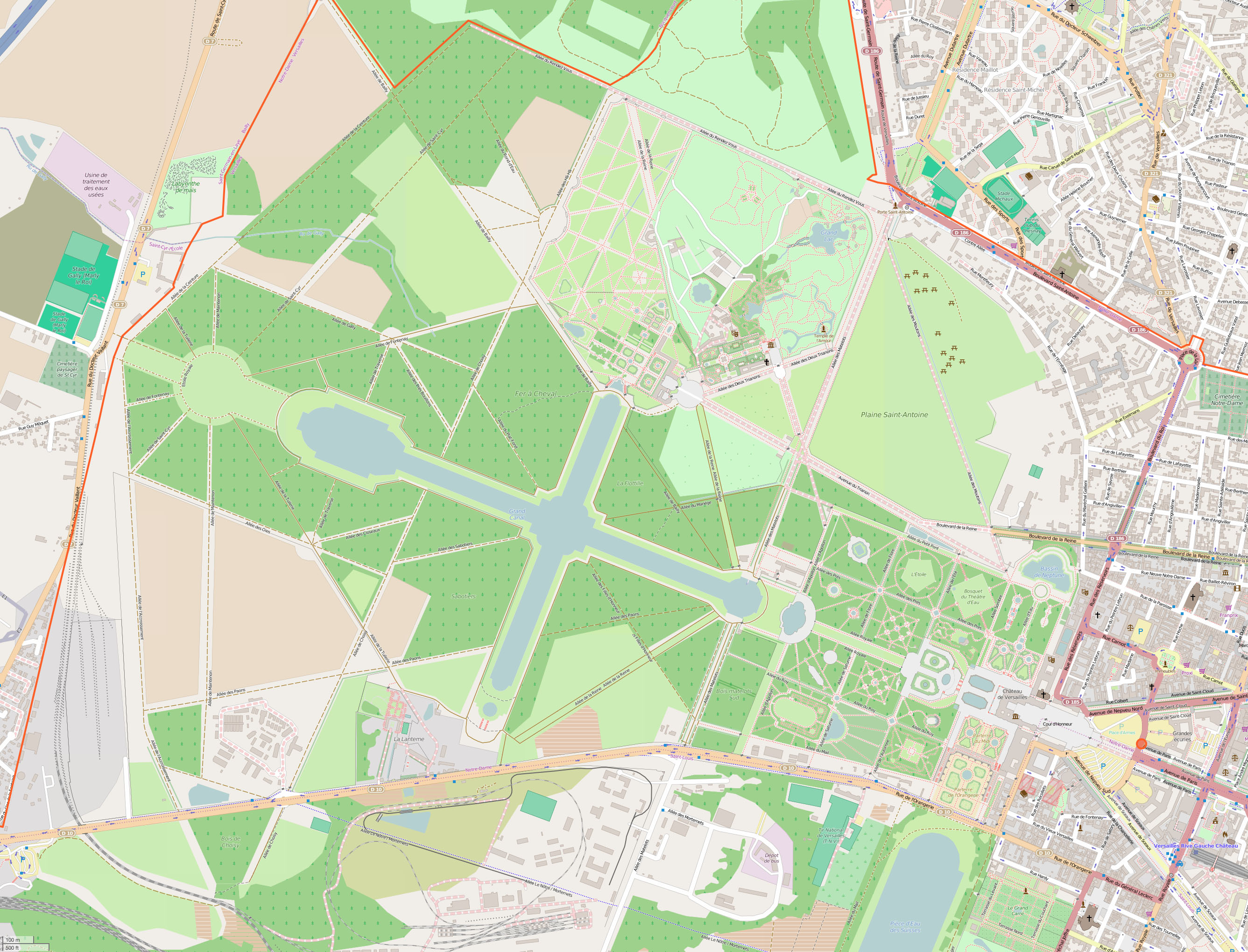 This map of